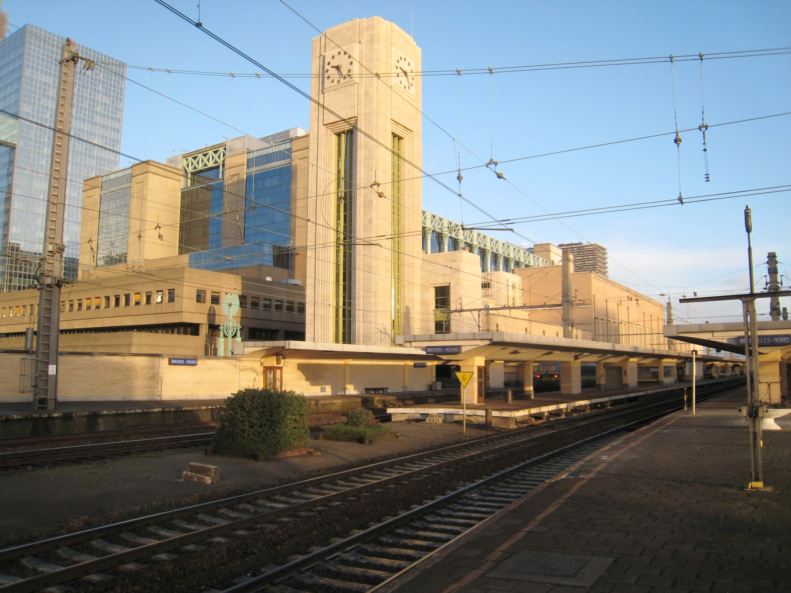 Brussels North station, taken from one of the platforms